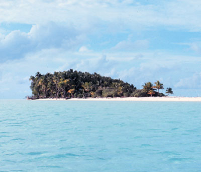 A cropped version of :Image:Desertisland.jpg, original information follows "Helen Reef - a classic desert island - elevation above sea level about 8 feet." Location: Helen Reef, Palau Photo Date: June 1971 Photographer: Dr. James P. McVey, NOAA Sea Grant Program